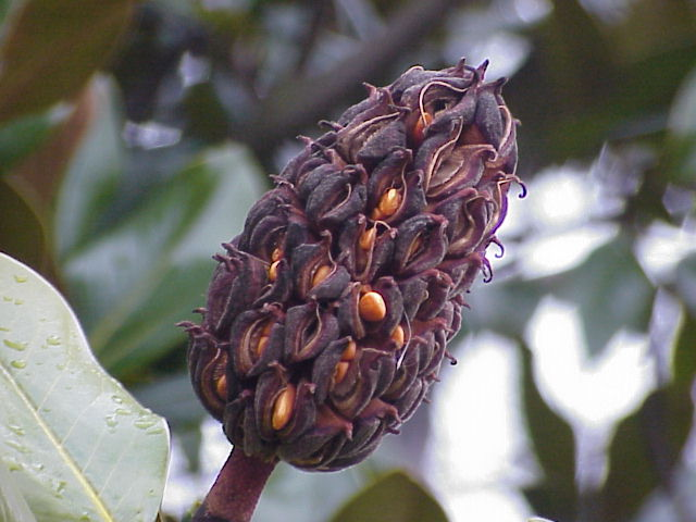 Magnolia grandiflora, family Magnoliaceae, Image no. 2